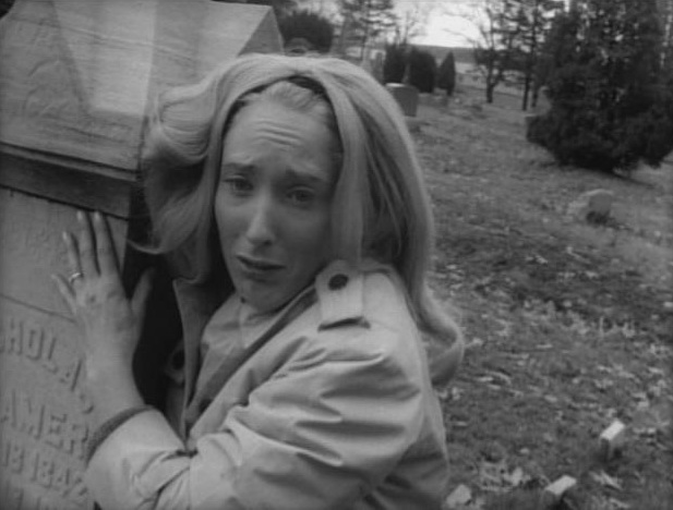 Actress Judith O'Dea in a scene from the movie Night of the Living Dead